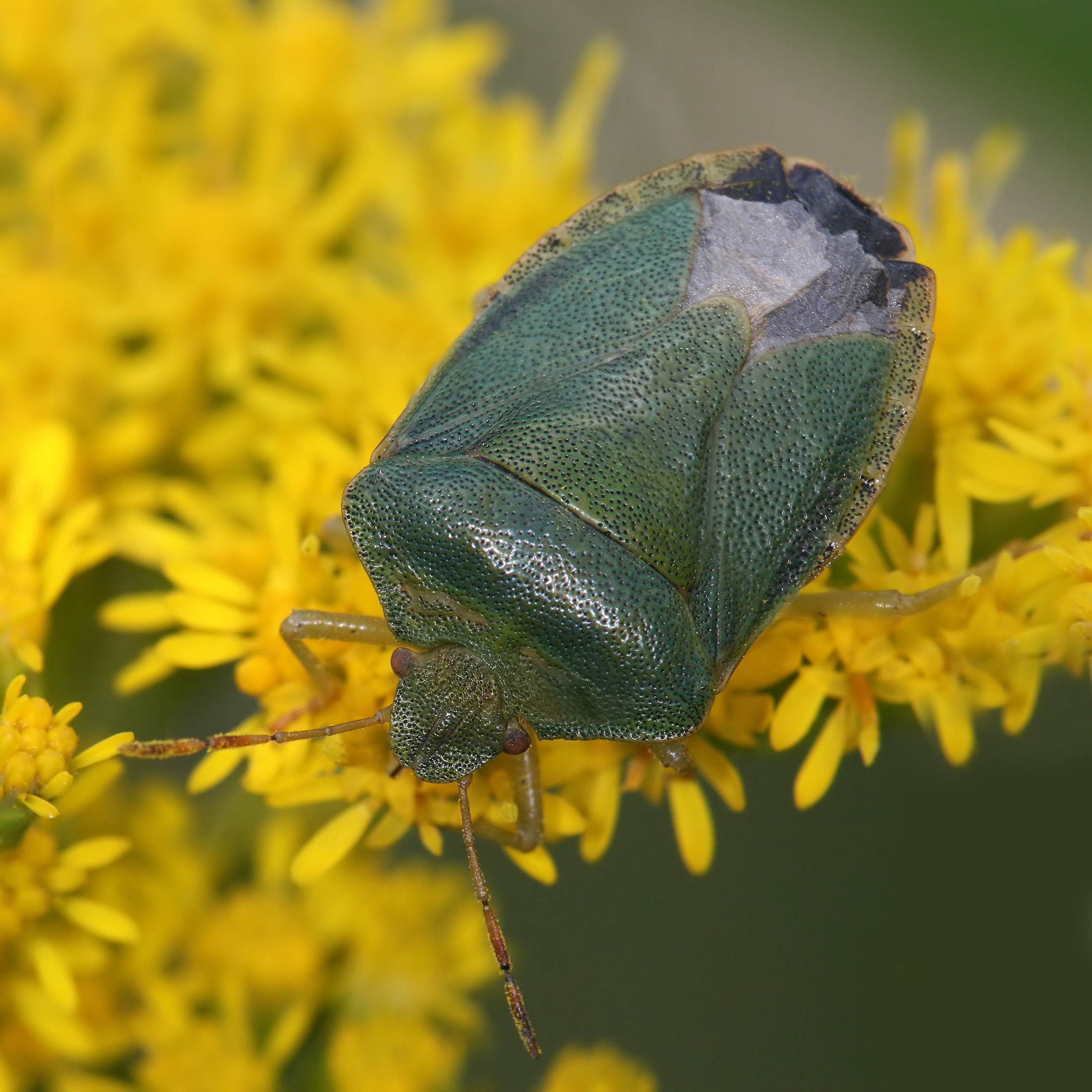 Description: The green shield bug (Palomena prasina) is a shield bug of the family Pentatomidae. This shield bug is a medium-green colour above without any substantial markings. This is a very common shield bug in Britain, being found in many habitats, including gardens.